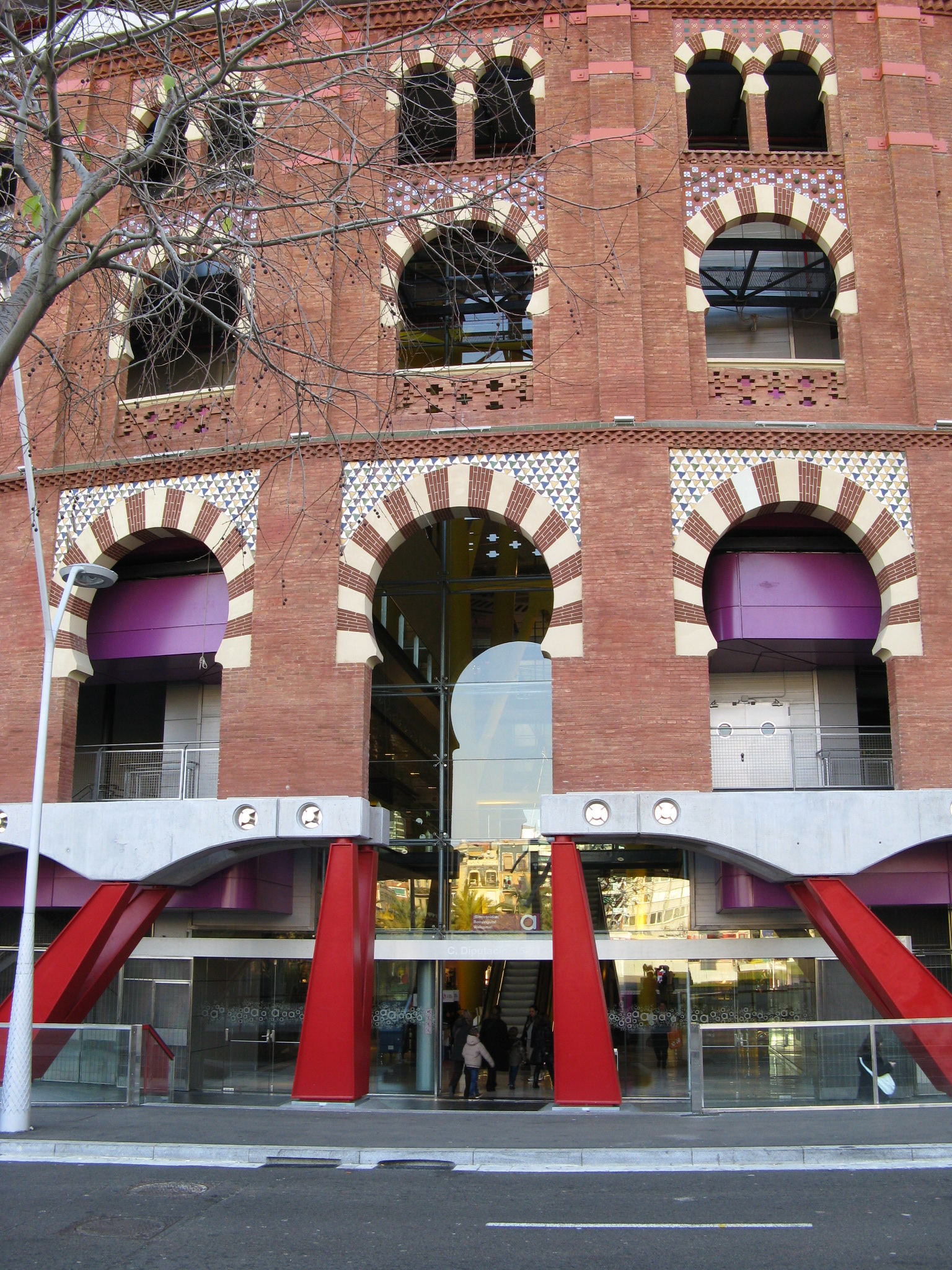 Arenas of Barcelona - entrance